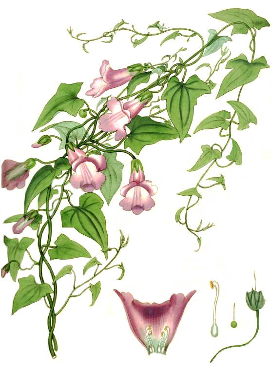 Maurandya scandens (as Usteria scandens) from The Botanist's Repository vol. 1 pl. 63 (1797); image processed by adjusting levels and hue, then deleting remaining background colour.